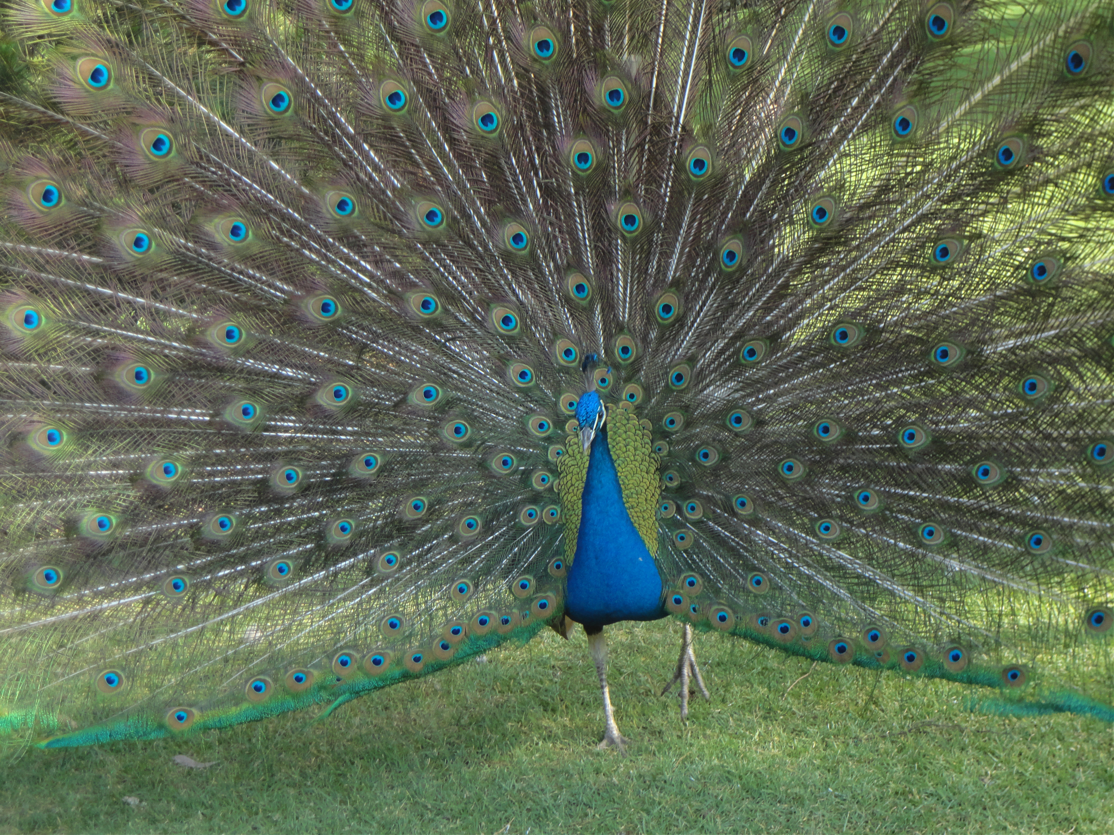 Male Pavo cristatus displaying